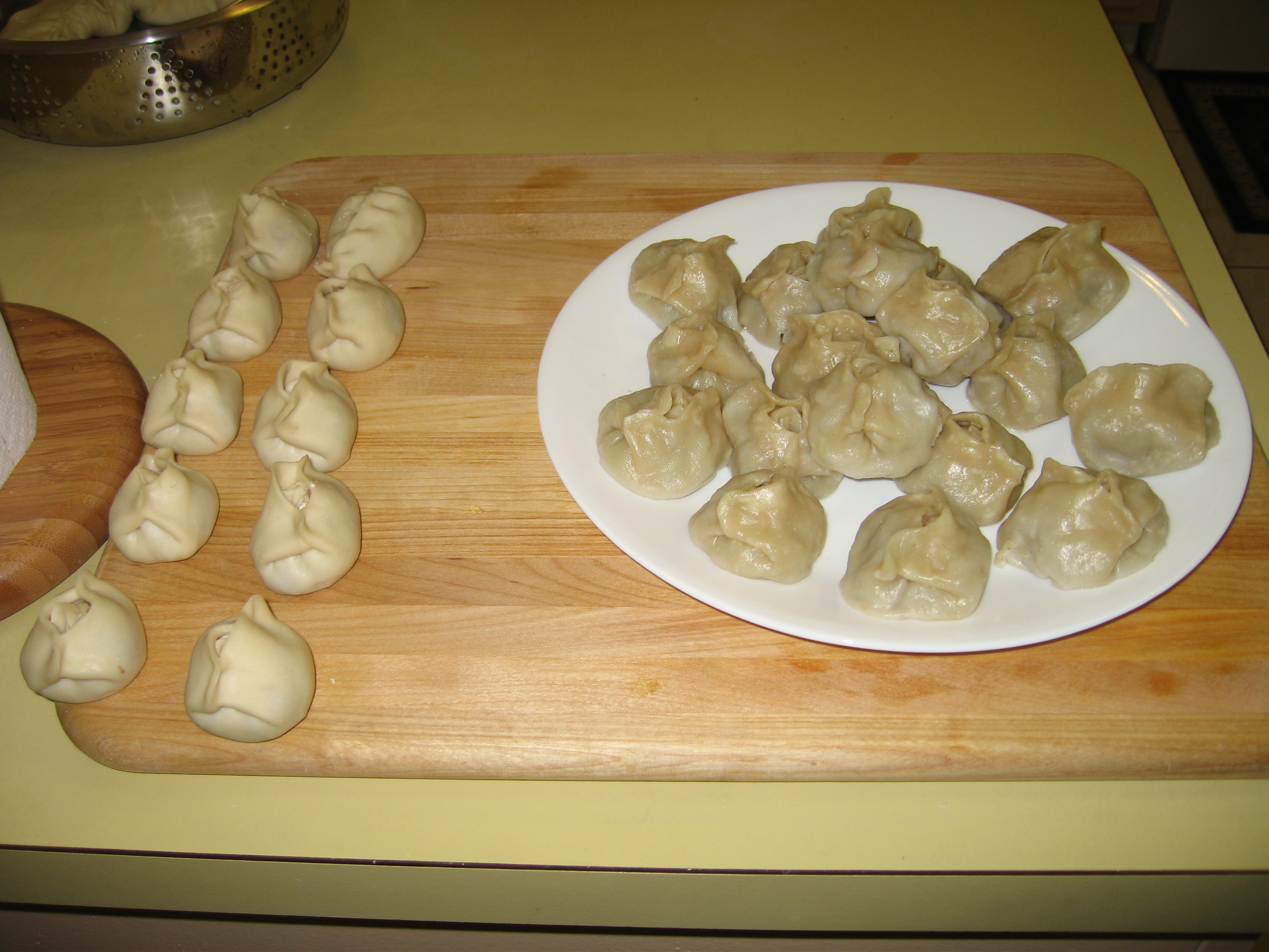 Cooked and uncooked Buuz, a type of steamed dumpling that is a popular example of the cuisine of Mongolia.